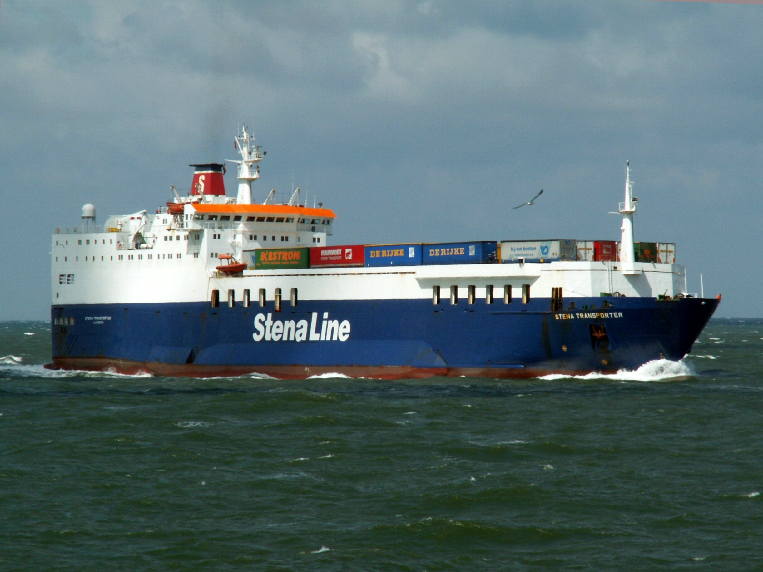 Stena Transporter approaching Port of Rotterdam.